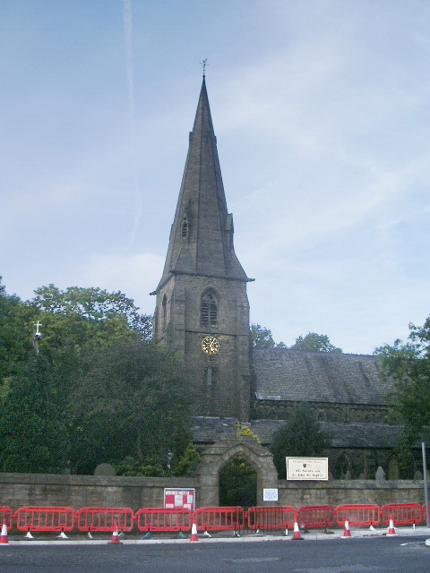 All Saints with St John the Baptist parish church, Padiham Road, Habergham, Burnley, Lancashire, seen from the south